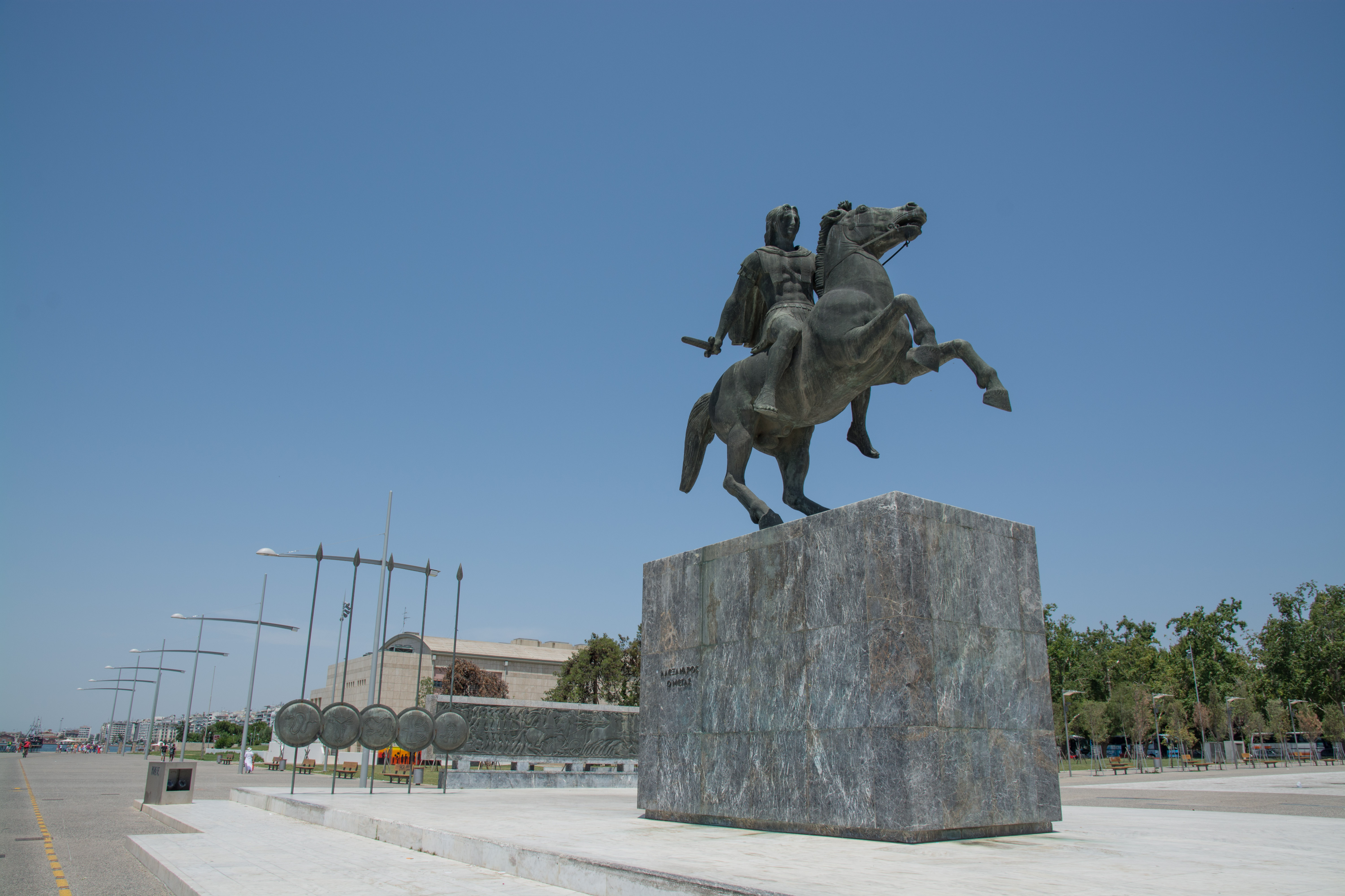 Θεσσαλονίκη 2014 (The Statue of Alexander the Great)